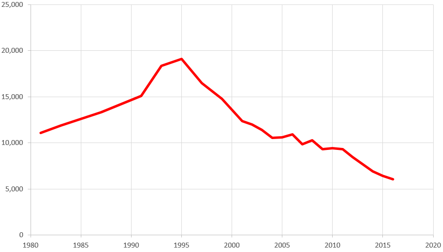 Crime in England and Wales from the Crime Survey.[1]